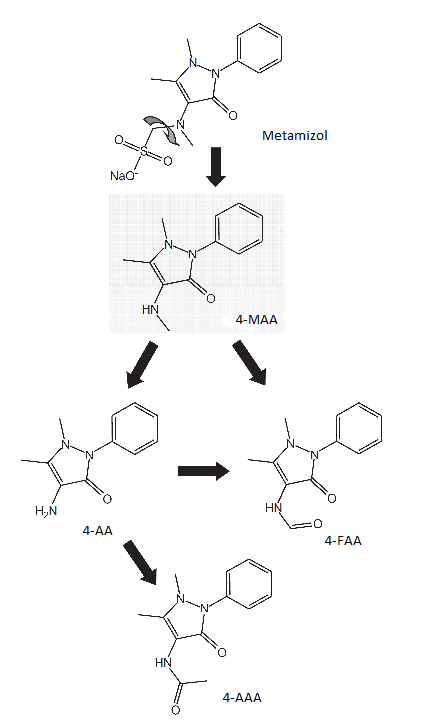 degradación del matamizol